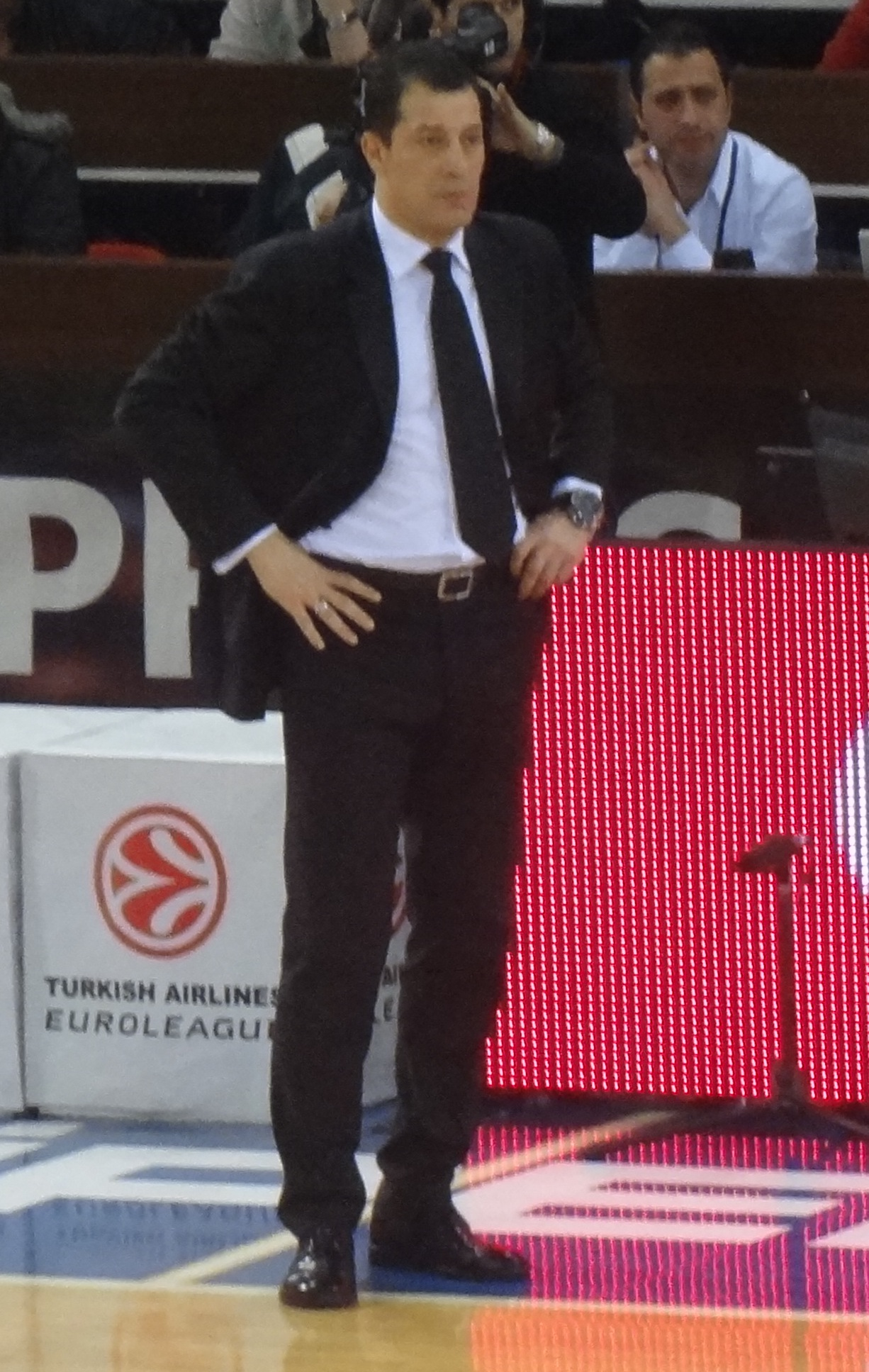 Ufuk Sarıca vs GS